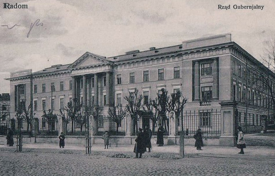 Building of the district council in Radom, Poland (before 1915)